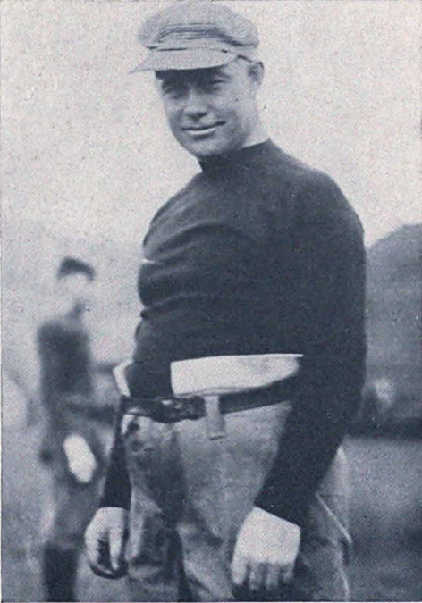 Photograph of Fielding H. Yost, caption "Coach Yost in Moleskins"